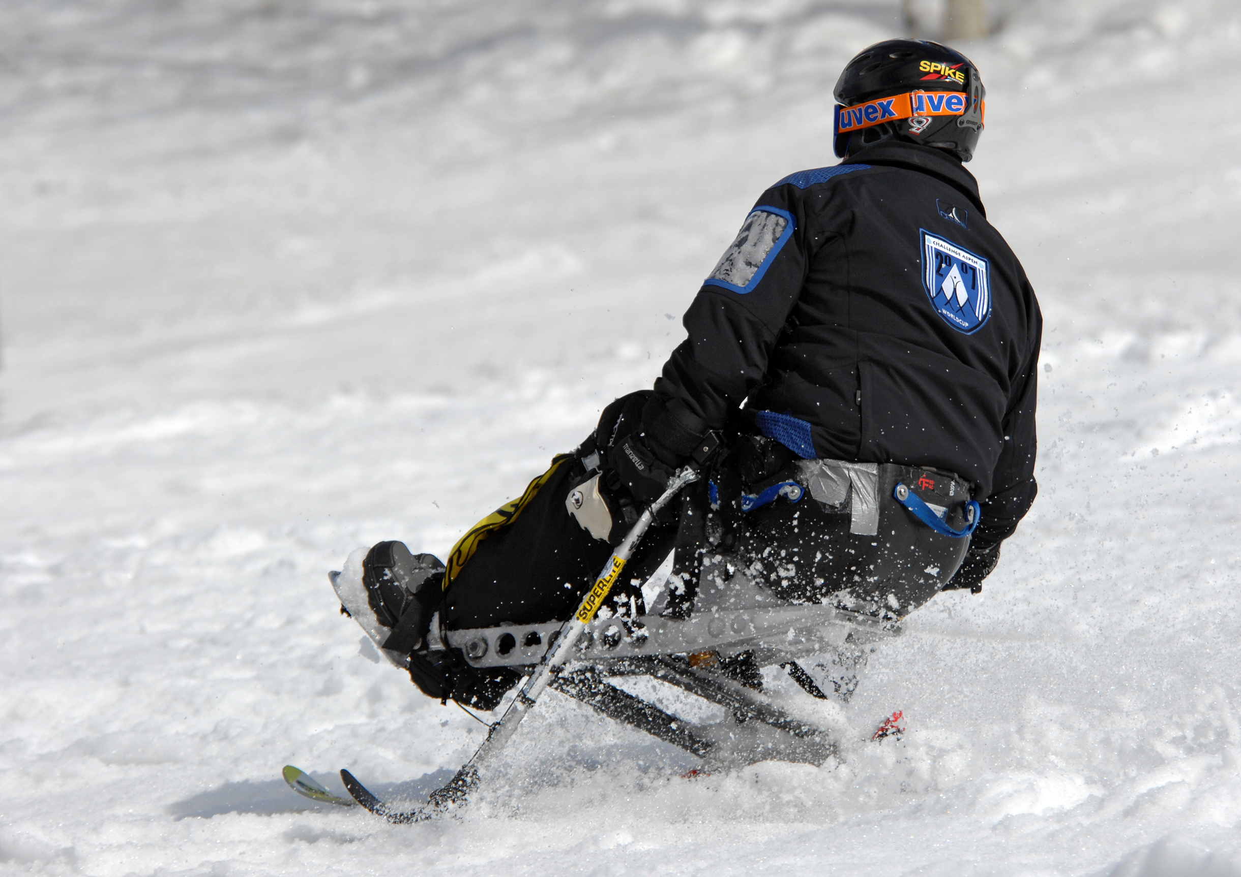 A disabled veteran skis down the mountain with his ski sled during the National Disabled Veterans Winter Sports Clinic in Snowmass, Colo., April 2, 2007. Defense Dept. photo by William D. Moss